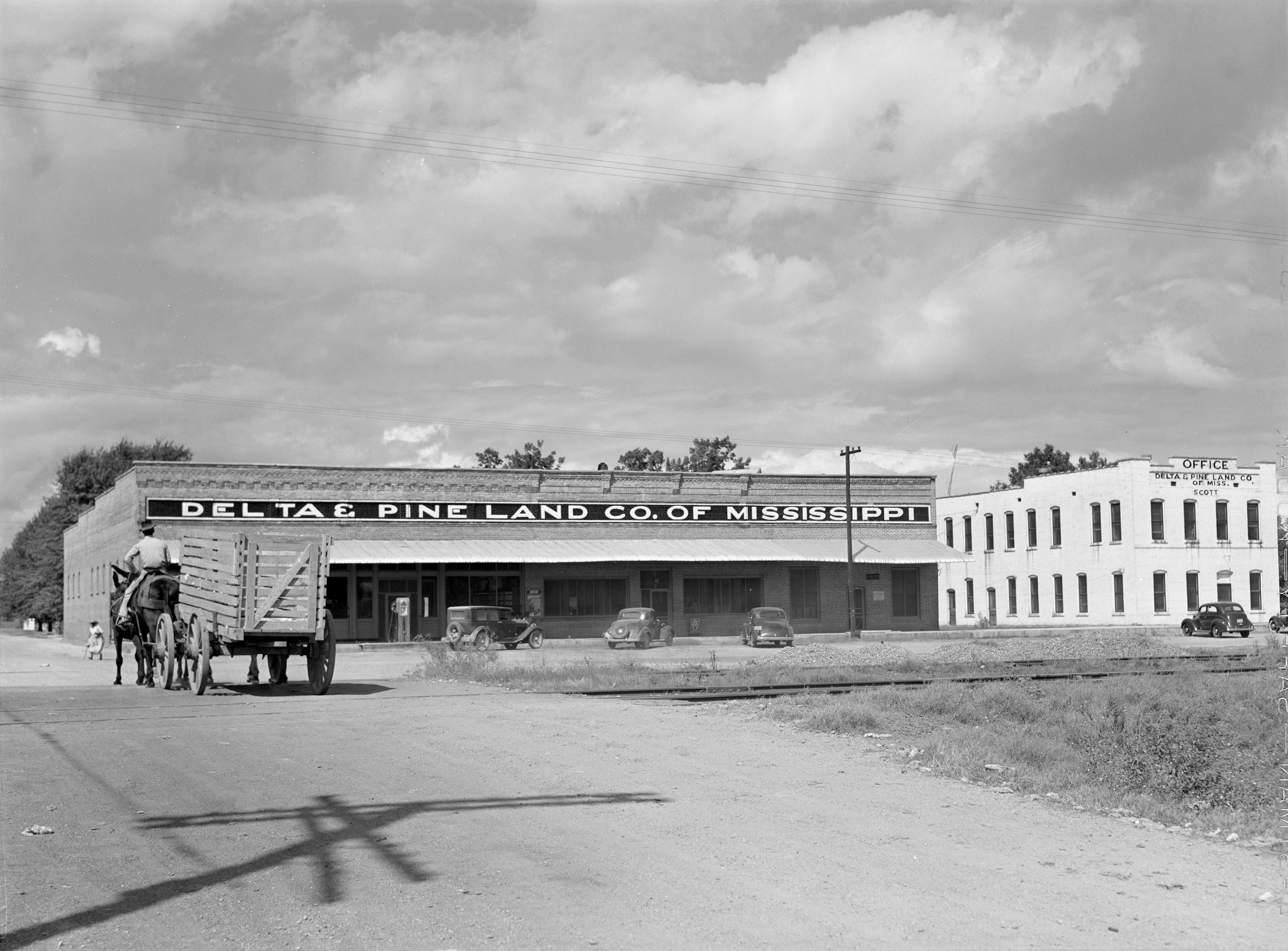 Offices of Delta and Pine Land Company of Mississippi, located in Scott, Mississippi. In the 1930s, Delta & Pine operated one of the largest cotton plantations in the Mississippi Delta.